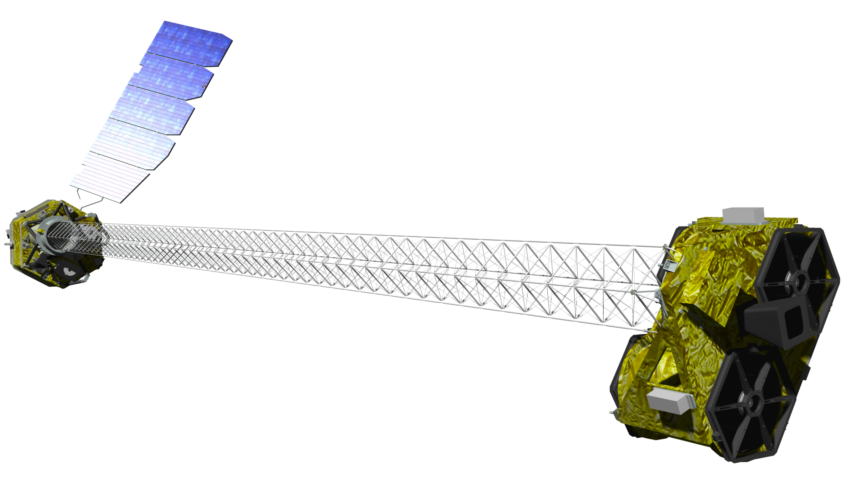 Artist's concept of NuSTAR on orbit. NuSTAR has a 10-m (30') mast that deploys after launch to separate the optics modules (right) from the detectors in the focal plane (left). The spacecraft, which controls NuSTAR's pointings, and the solar panels are with the focal plane. NuSTAR has two identical optics modules in order to increase sensitivity.